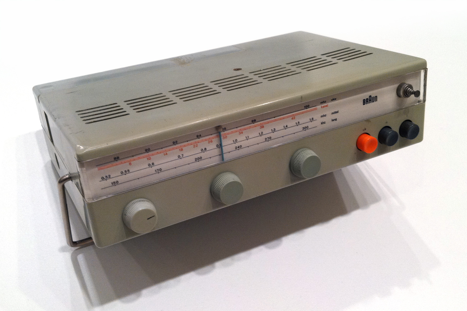 Braun T 52 portable radio. Released in 1961, the T 52 was the first portable radio designed specifically to be positioned on the dashboard of a car. The handle, when not being used, could be folded down to act as a stand. Photographed at the San Francisco Museum of Modern Art.